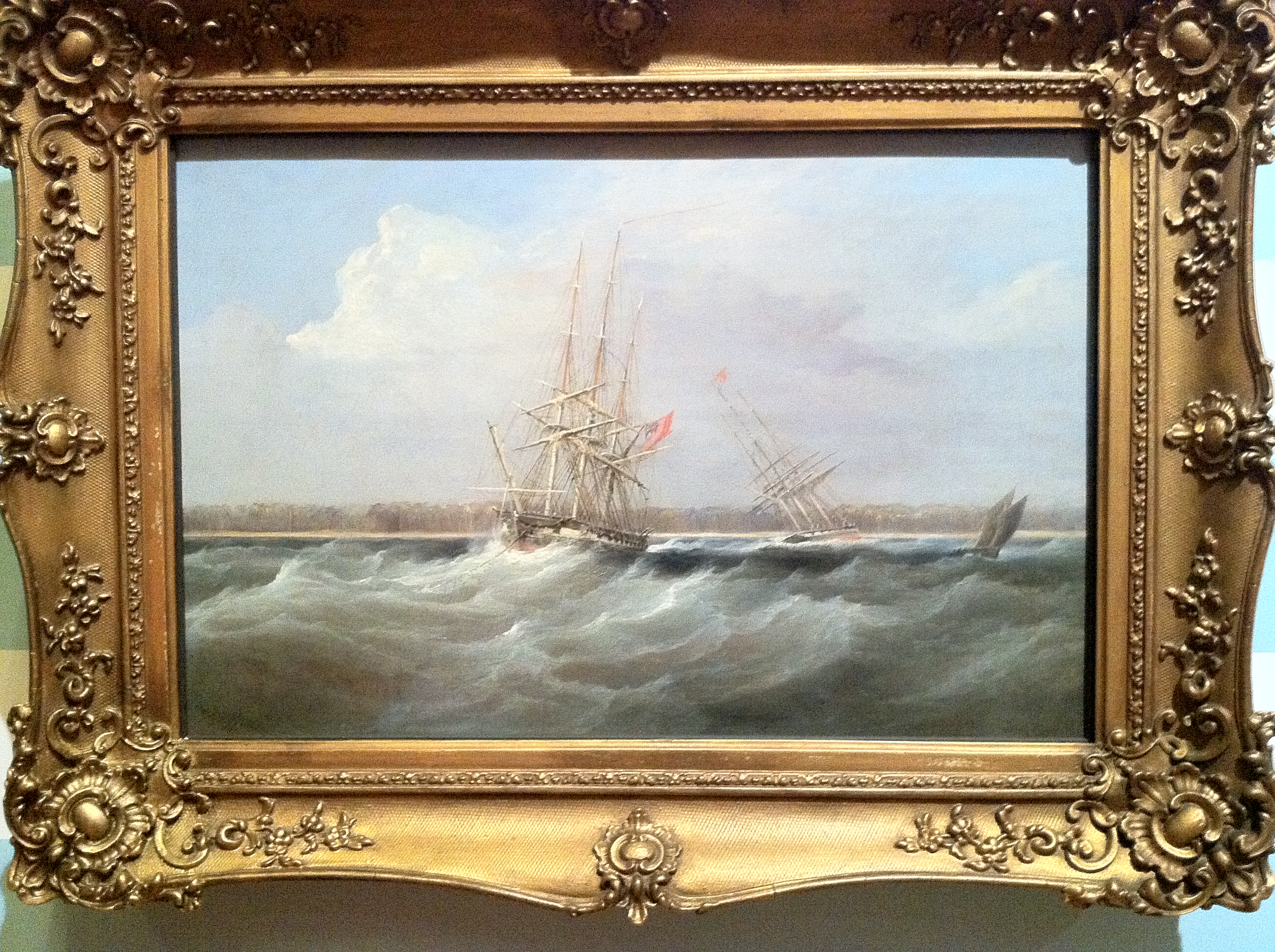 The Sylph, a fast clipper, was built in India in 1831 for the merchant Rustomjee Cowasjee. In 1835 it ran aground on a reef off the Malay peninsula, while sailing to China with a cargo of opium. The ship and most of its 995 chests of opium were saved by the Company's sloop Clive. This ship was designed by Sir Robert Seppings, the surveyor of the Royal Navy and built at Calcutta in 1831 for the Parsee merchant Rustomjee Cowasjee who wanted a ship that could cope with monsoons. She had a complement of 304 men and was one of the fastest early opium clippers. This was very popular with Jardine Matheson who either owned or rented the ship from Cowasjee. The vessel carried opium to London in 1832. While sailing from Calcutta to China in 1835 with a full cargo of 995 chests of opium she was stranded on a shoal in the Malay Peninsula. The hull was damaged and the opium soaked but the ship and all but two of the chests were saved through the fortunate appearance of the East India Company’s sloop ‘Clive’. Refloated and later rebuilt in Singapore, the ‘Sylph’ was chased by Chinese junks in 1841 and came close to being captured. It is thought that she was eventually captured and burnt by pirates who operated from the island of Hainan. The painting shows the ‘Sylph’ in the centre. The sloop on the right is coming to rescue the ship and there is a smaller craft in the foreground on the far right. The ships are struggling in the fierce weather. The painting shows the Malay coast in the distance as deeply vegetated with palm trees.